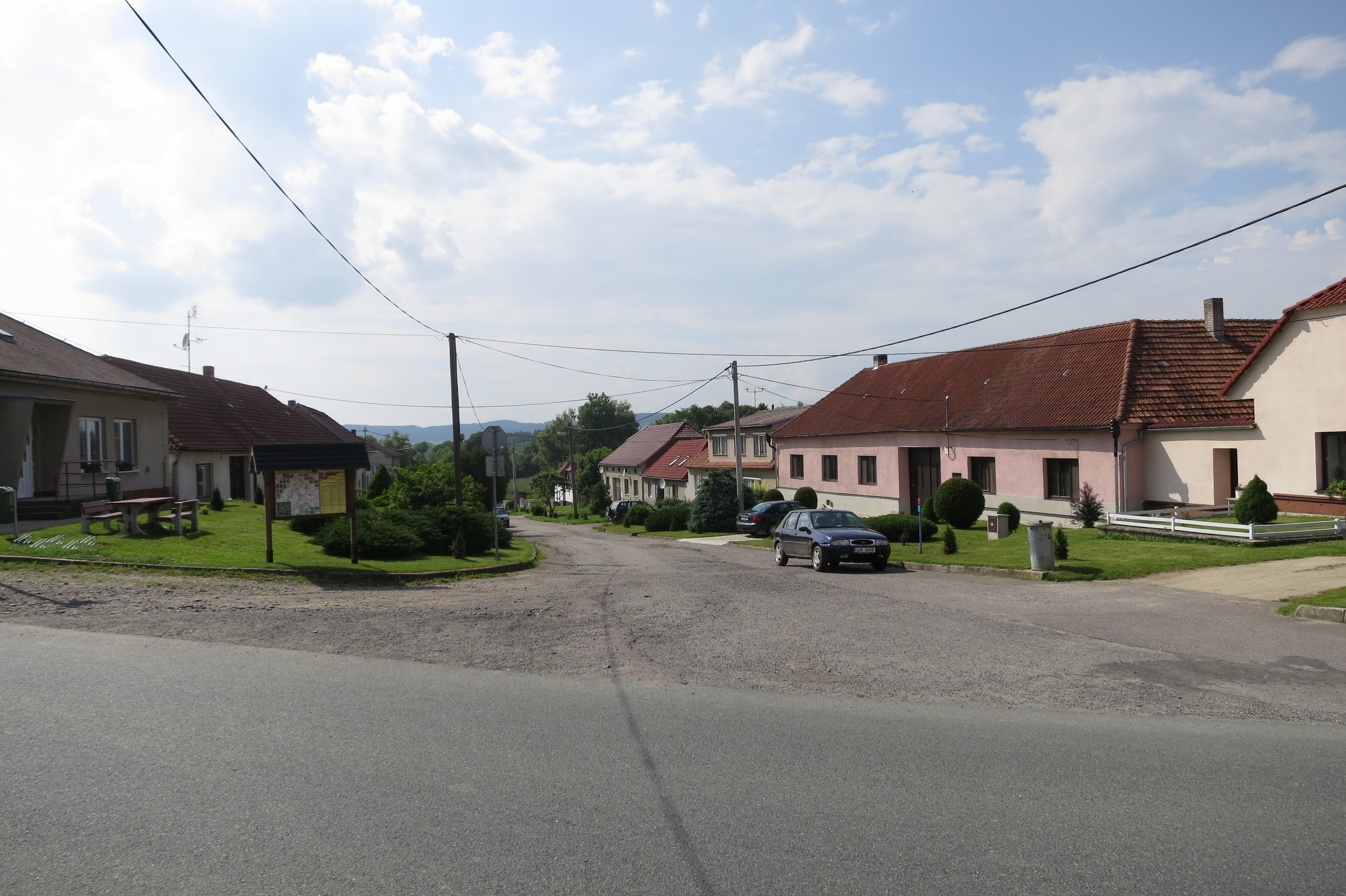 Center of Radkovice u Budče, Třebíč District.